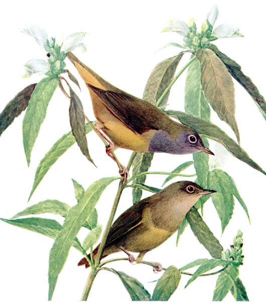 Connecticut Warbler, Oporornis agilis, male (upper) and female (lower), offset reproduction of watercolor